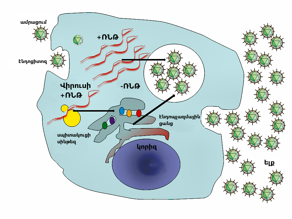 A simplified diagram of the Hepatitis C virus replication cycle in Armenian.